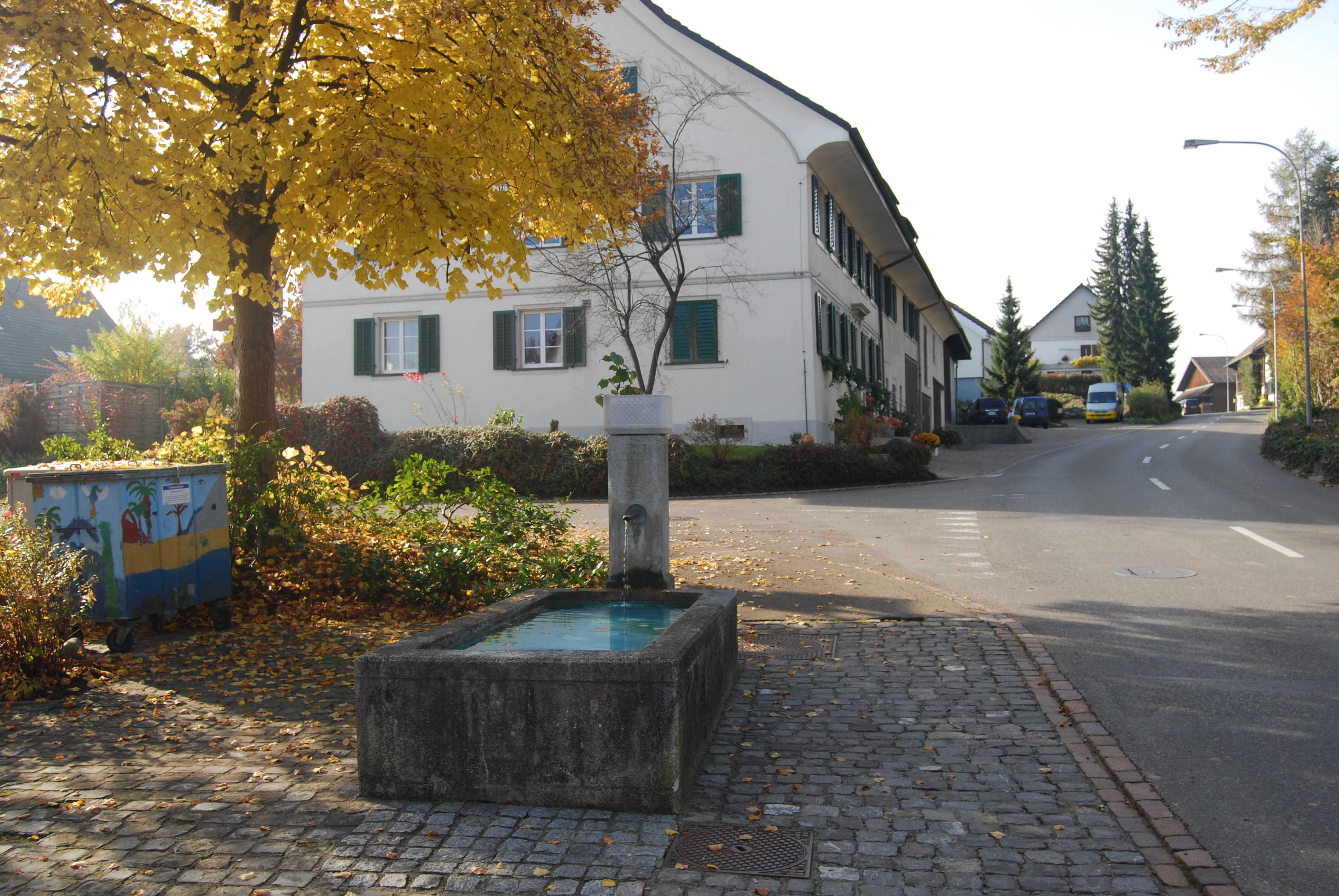 Village fountain at Ellikon an der Thur, canton of Zürich, SwitzerlandEsperanto: Vilaĝa puto en Ellikon ĉe Turo, Kantono Zuriko, Svislando